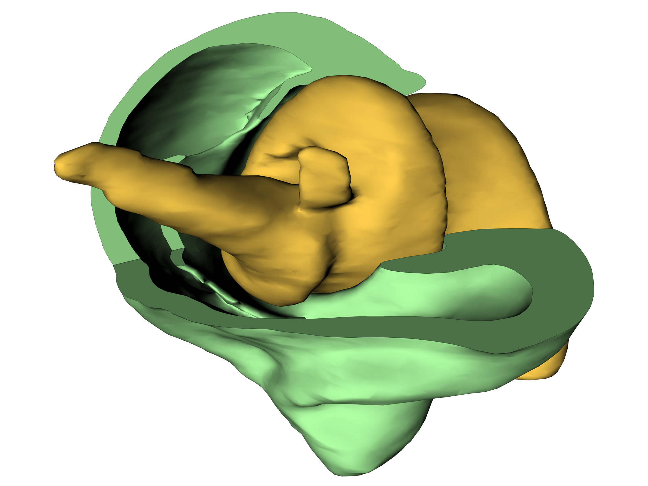 Coxa-Trochanter joint of weevil Trigonopterus oblongus. Trochanter functions as biological screw, coxa as corresponding nut.